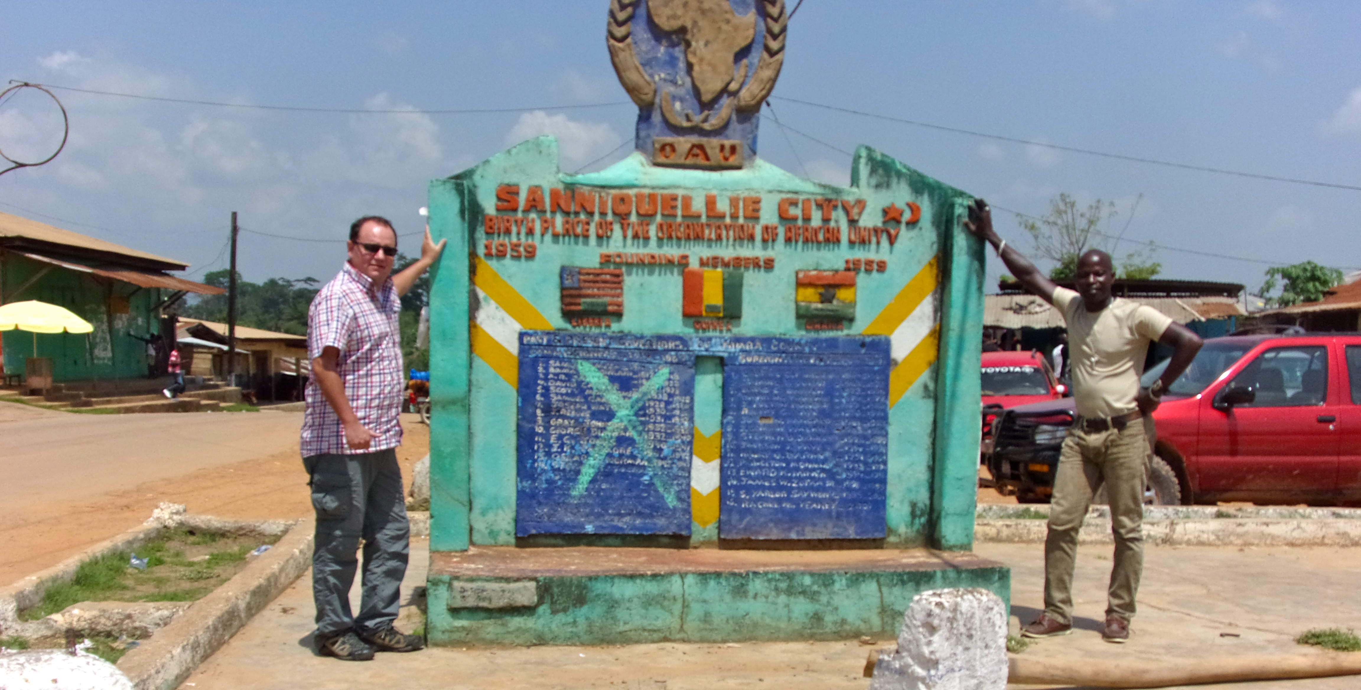 Birthplace of the OAU: Sanniquelle